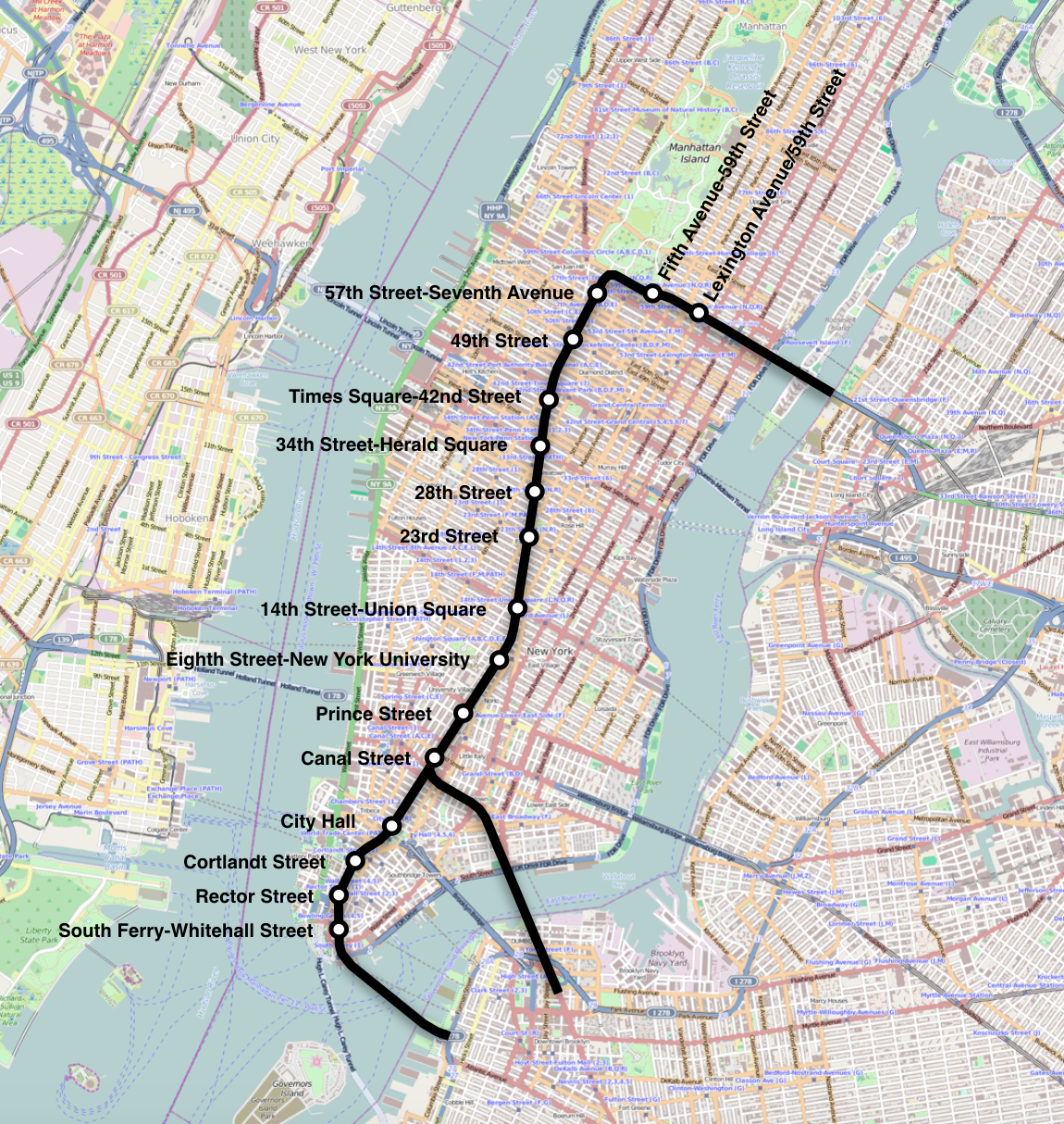 BMT Broadway Line map